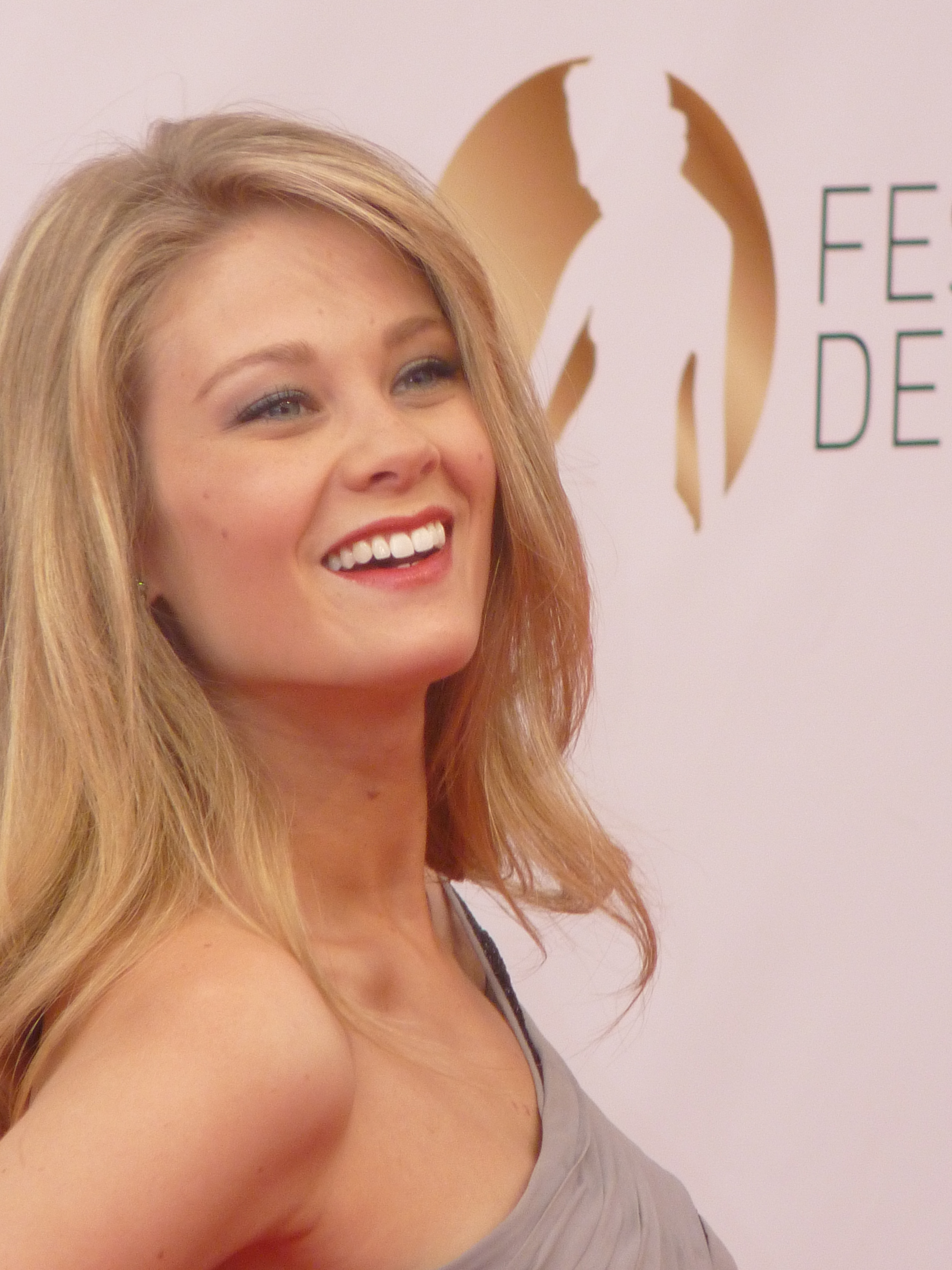 Kimberly Matula at the 2012 Monte-Carlo Television Festival.